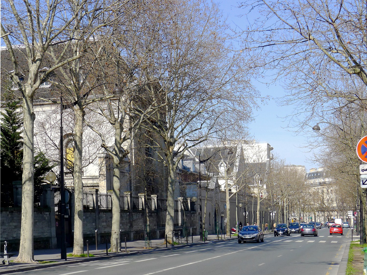 Denfert-Rochereau avenue - Paris